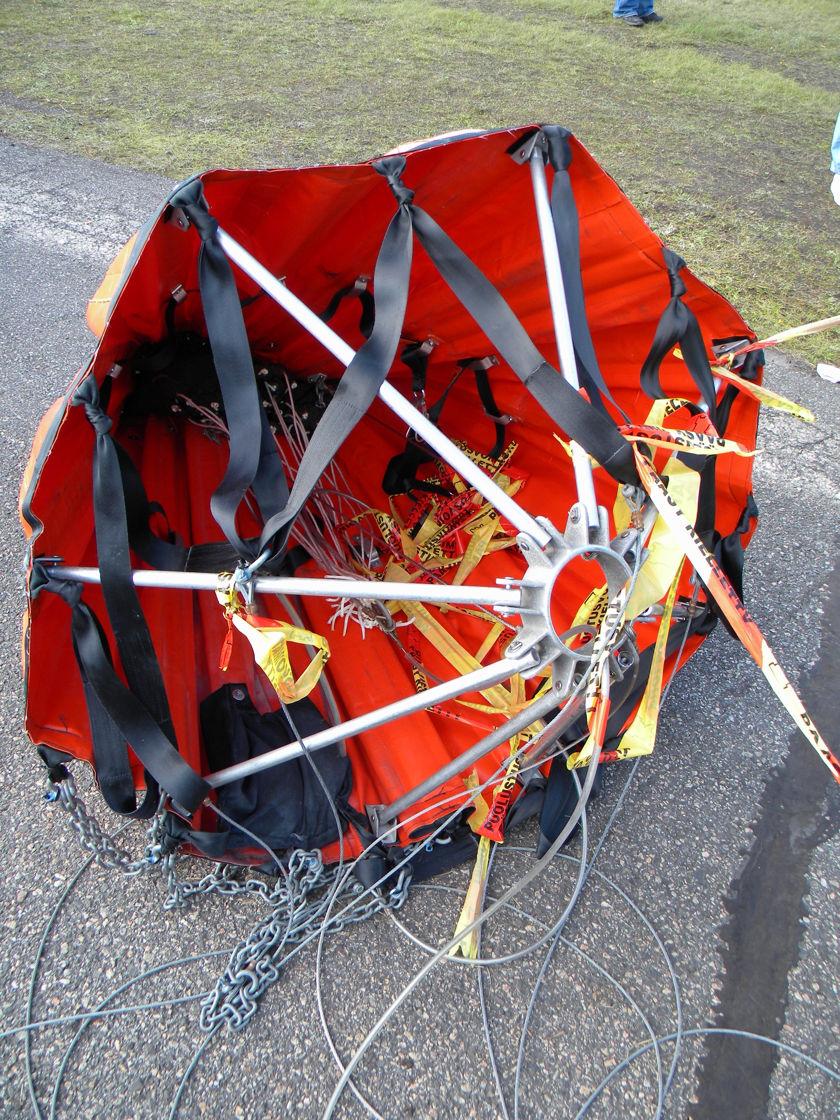 A Bambi Bucket is a water container used by a helicopter. The container can be loaded from lakes, rivers etc. and emptied in air to fight e.g. forest fires.